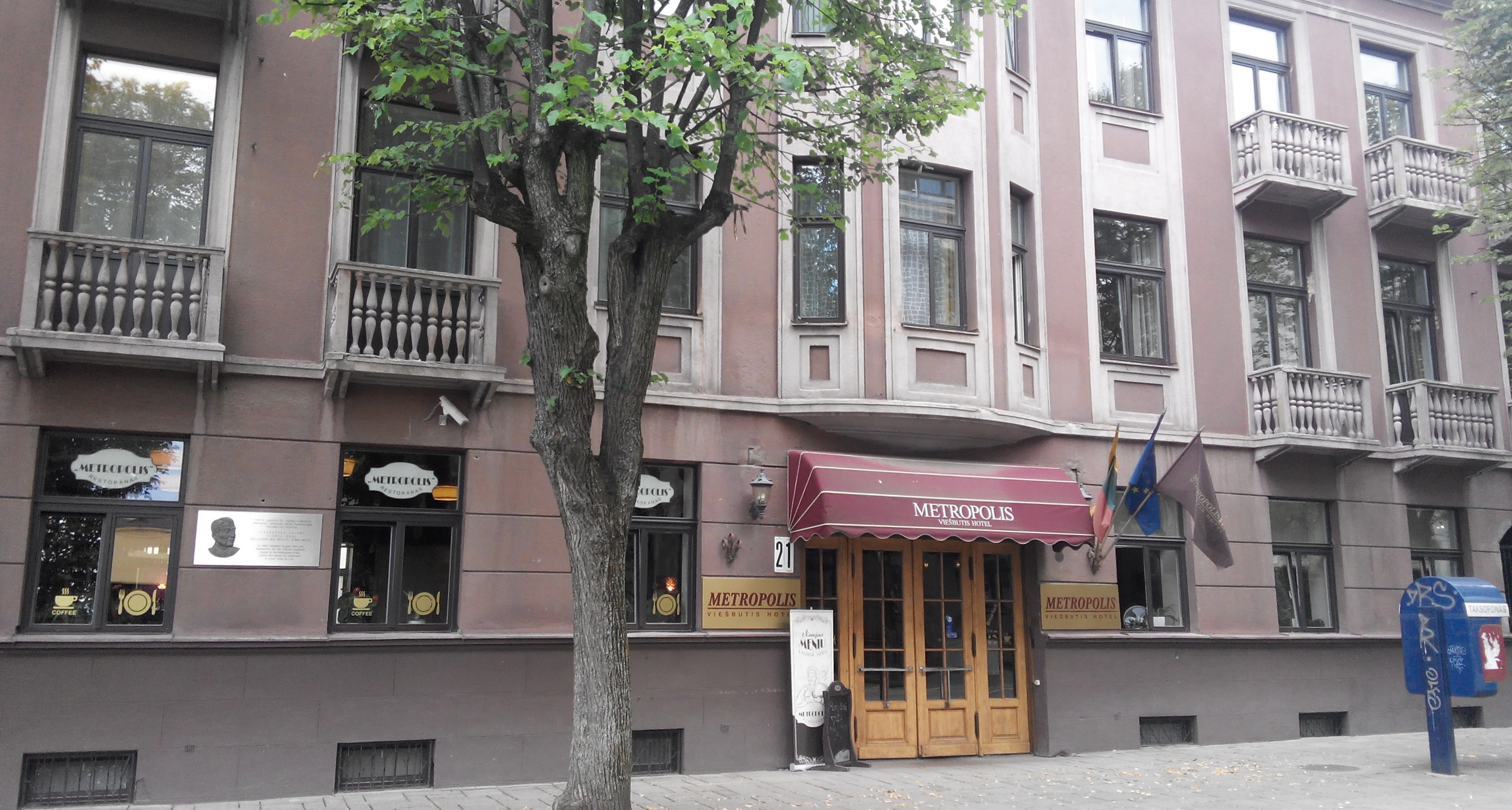 Memorial plaque to Chiune Sugihara, S. Daukanto g. 21, Kaunas, Lithuania